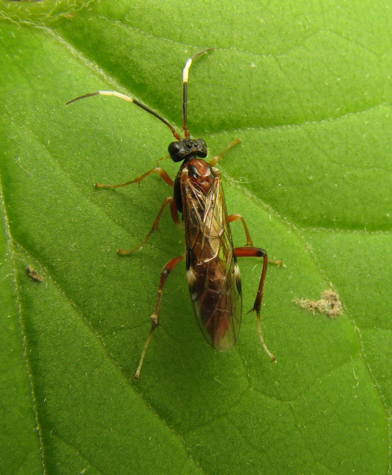 Sawfly, Leucopelmonus annulicornis. New River Gorge Bridge, Fayette County, West Virginia, USA.